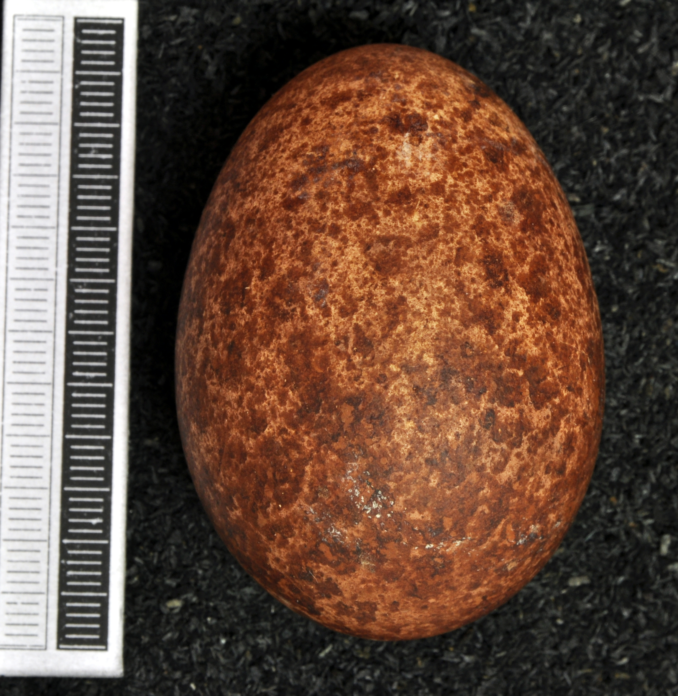 Peregrine falcon Falco peregrinus , egg, Coll. Museum Wiesbaden